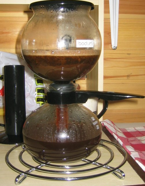 Vacuum coffee brewer